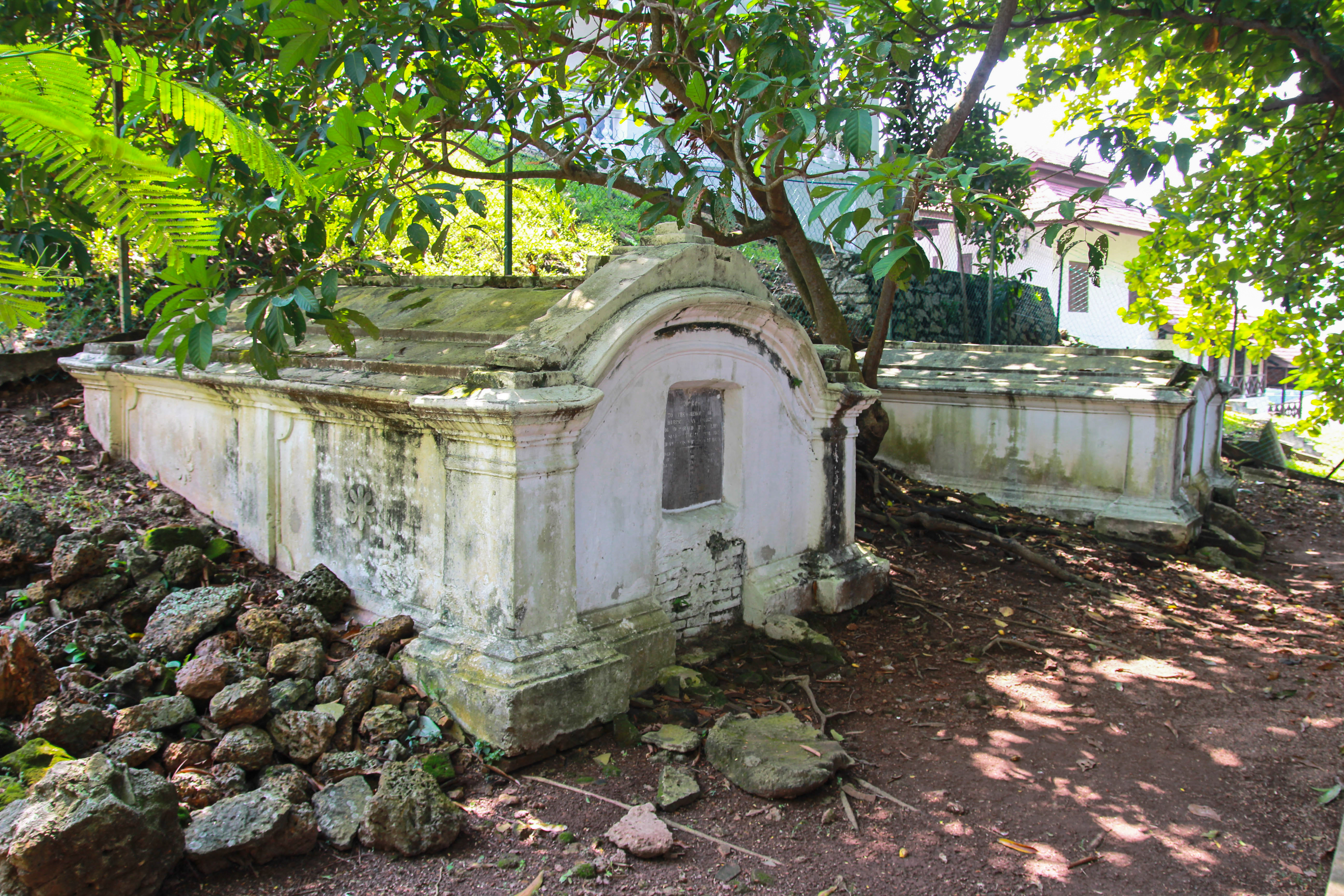 Melakka